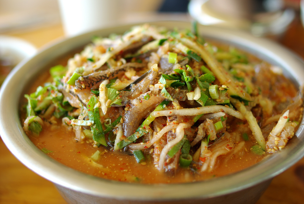 Jari mulhoe, mulhoe (sliced raw fish with a mixture of water and spice sauce), made with Damselfish (Chromis notata) which is a local specialty of Jeju Island, South Korea.